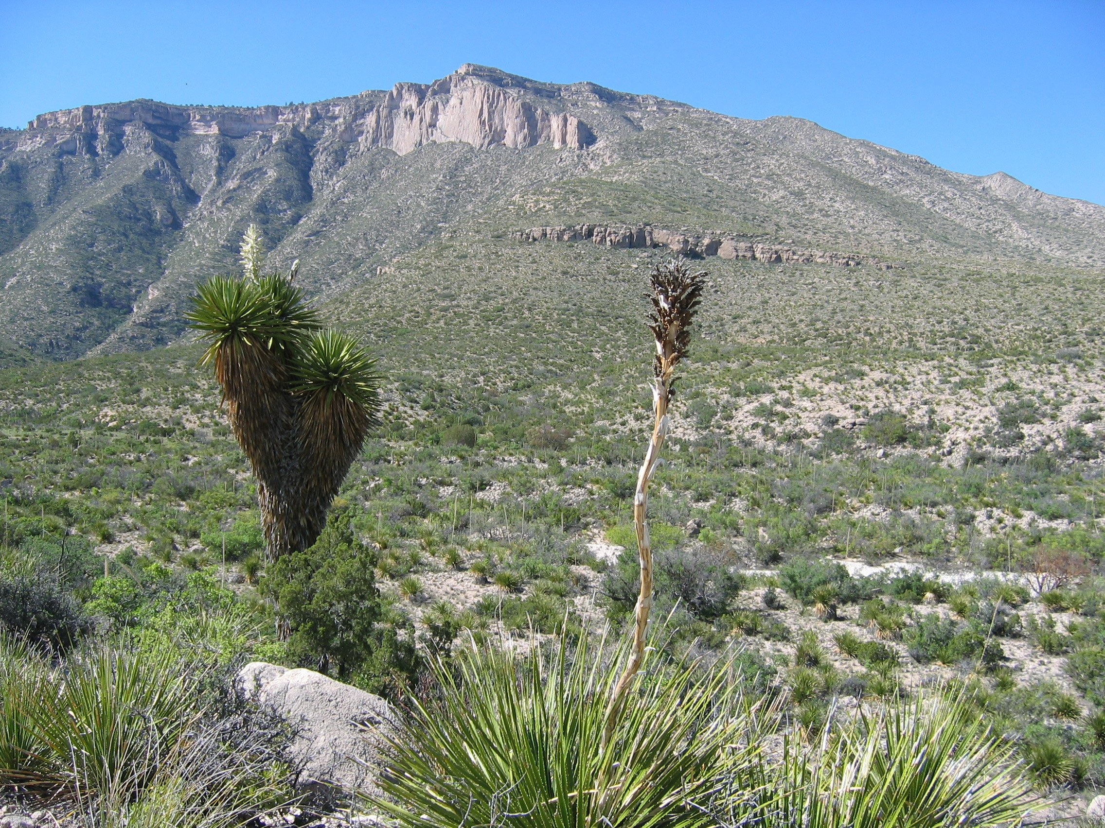 View of the Guadalupe Mountains, Texas. The top of the cliff was bould during the Permian by sponges and other reef-building organisms. The flanks are the ancient slopes connecting the reef with the basinal depths.